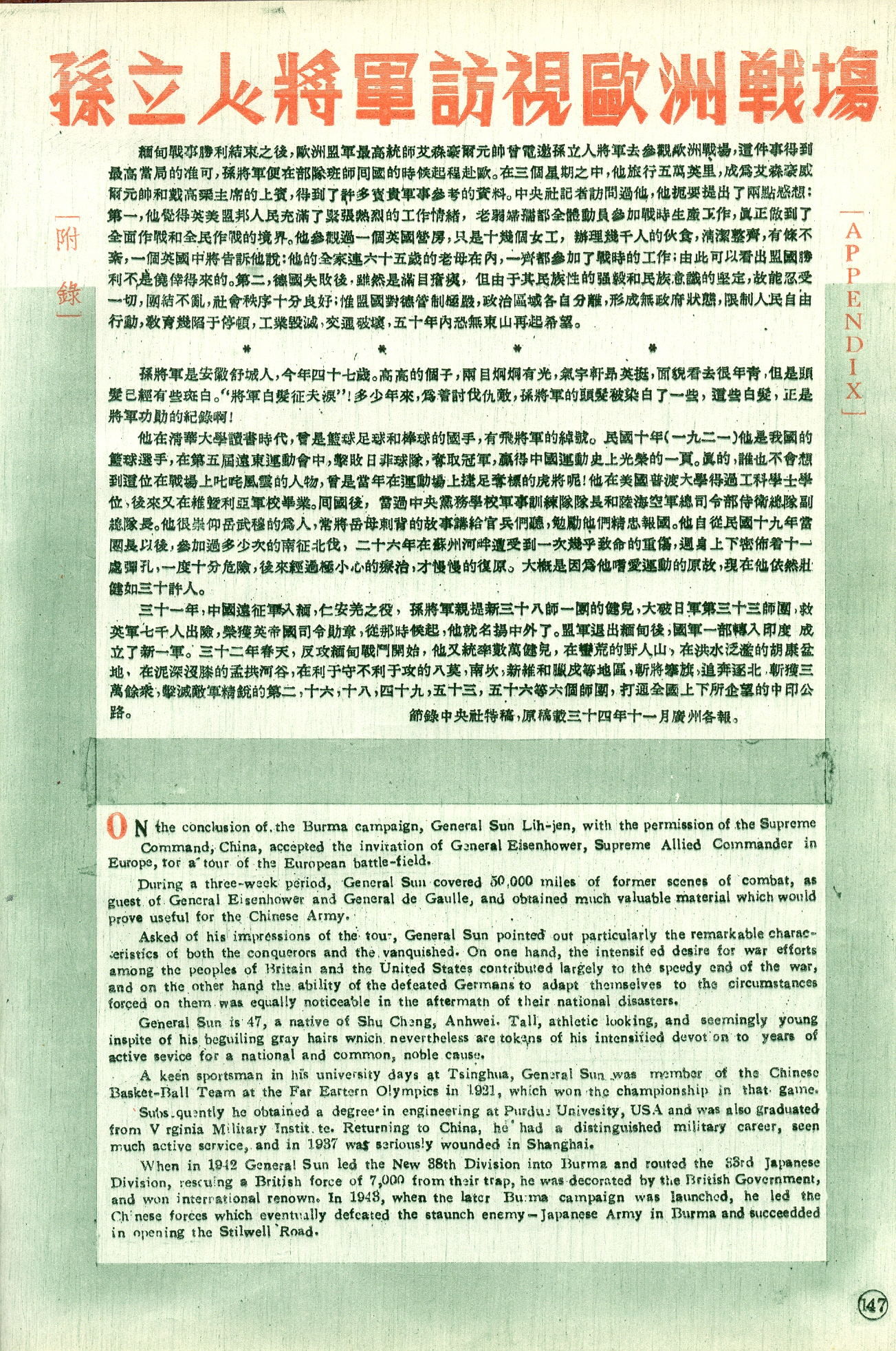 On the invitation of General Eisenhower, Sun Liren went on a tour of Europe.